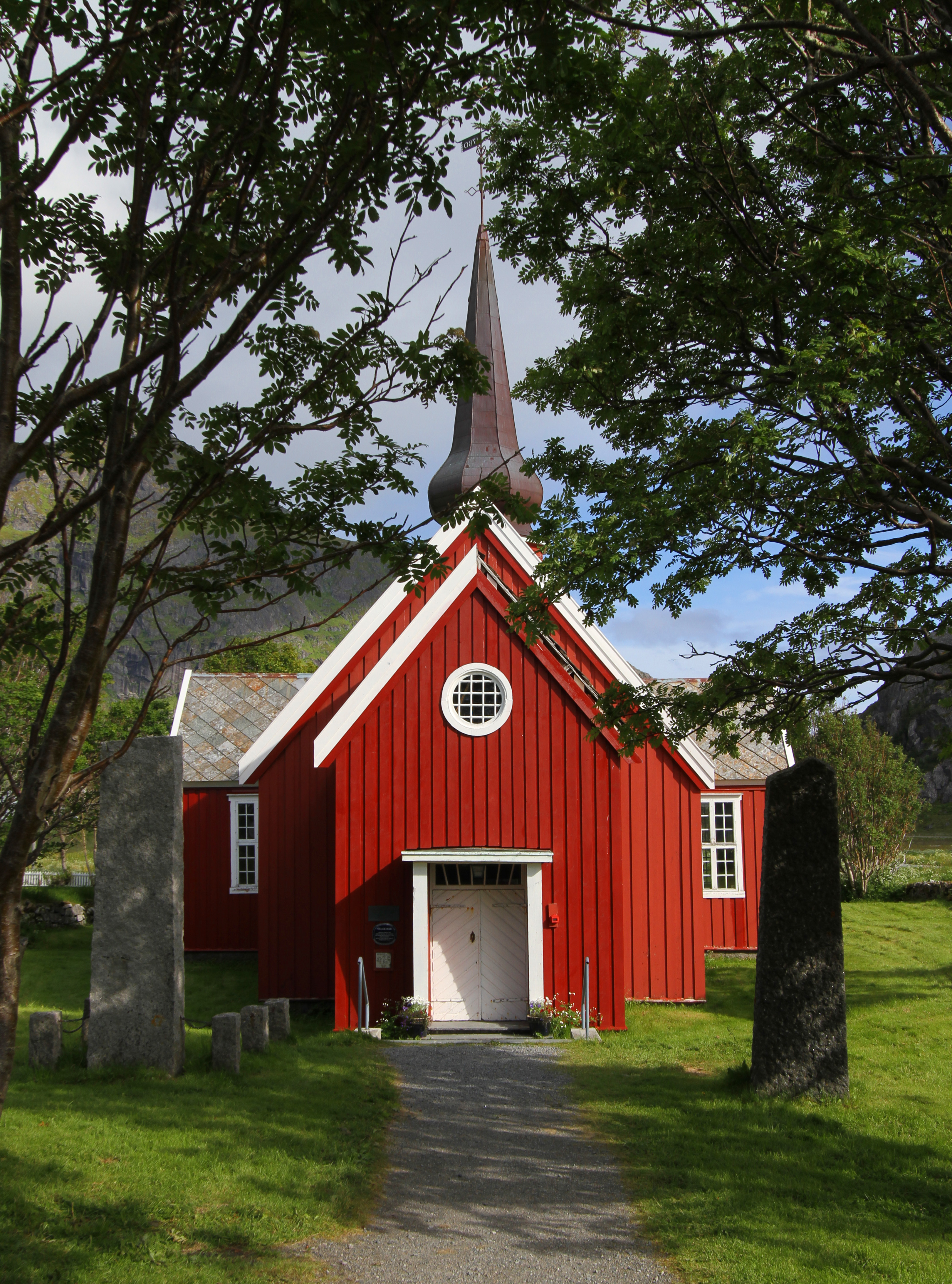 Flakstad church in Norway